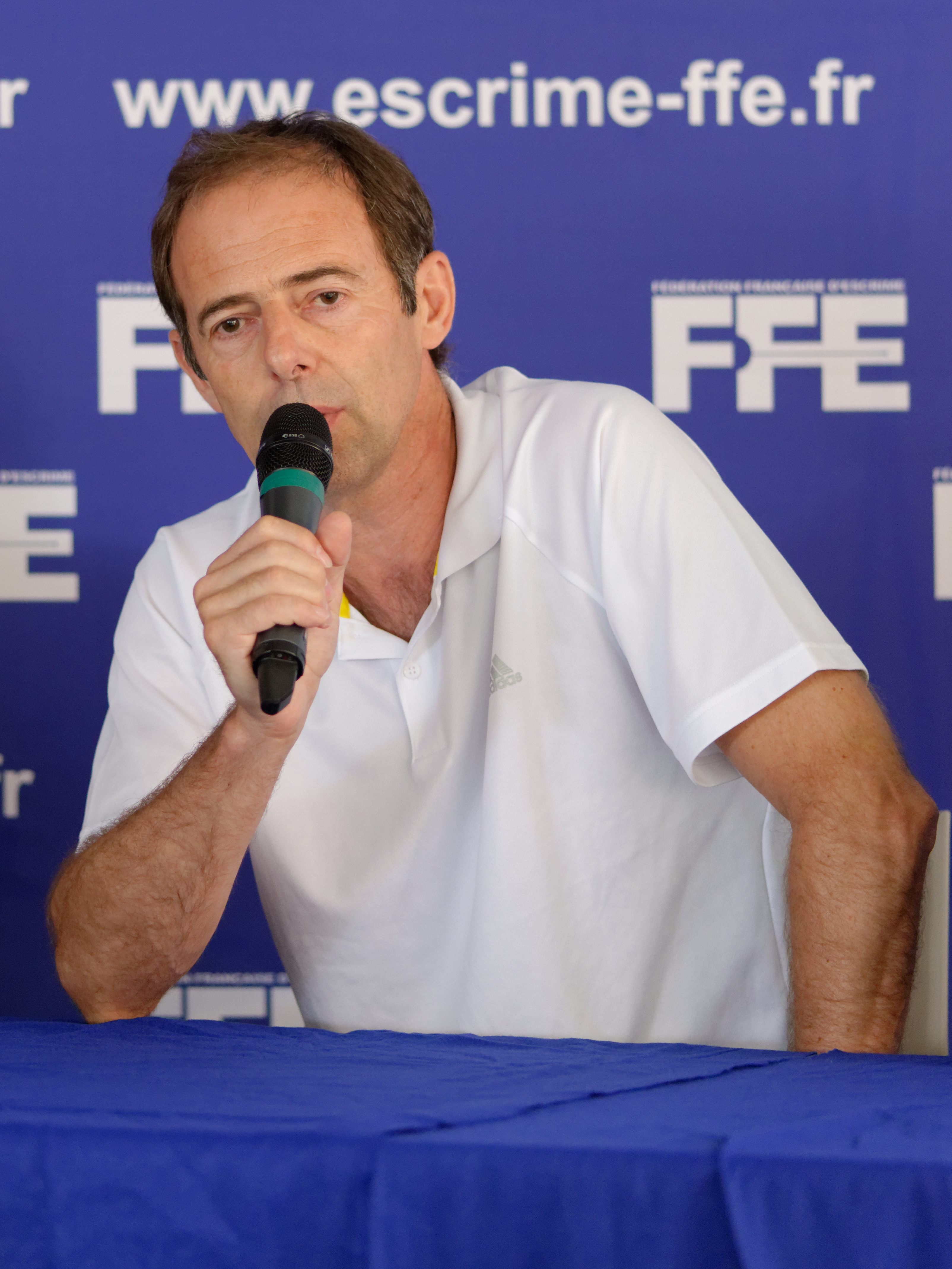 Fencing coach Pierre Guichot at a press conference held by the French Fencing Federation on Thursday July 25th 2013 in Paris.